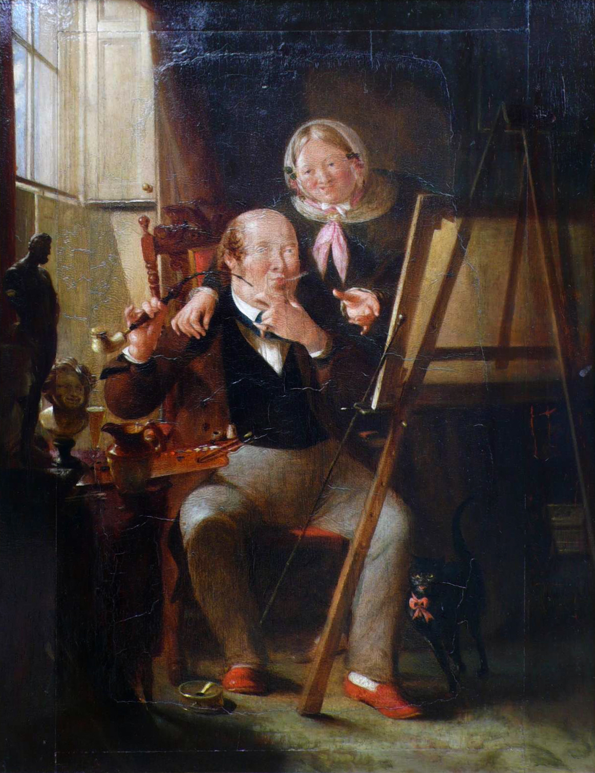 Self-Portrait of William Kidd, H.R.S.A. and his wife, Jane.